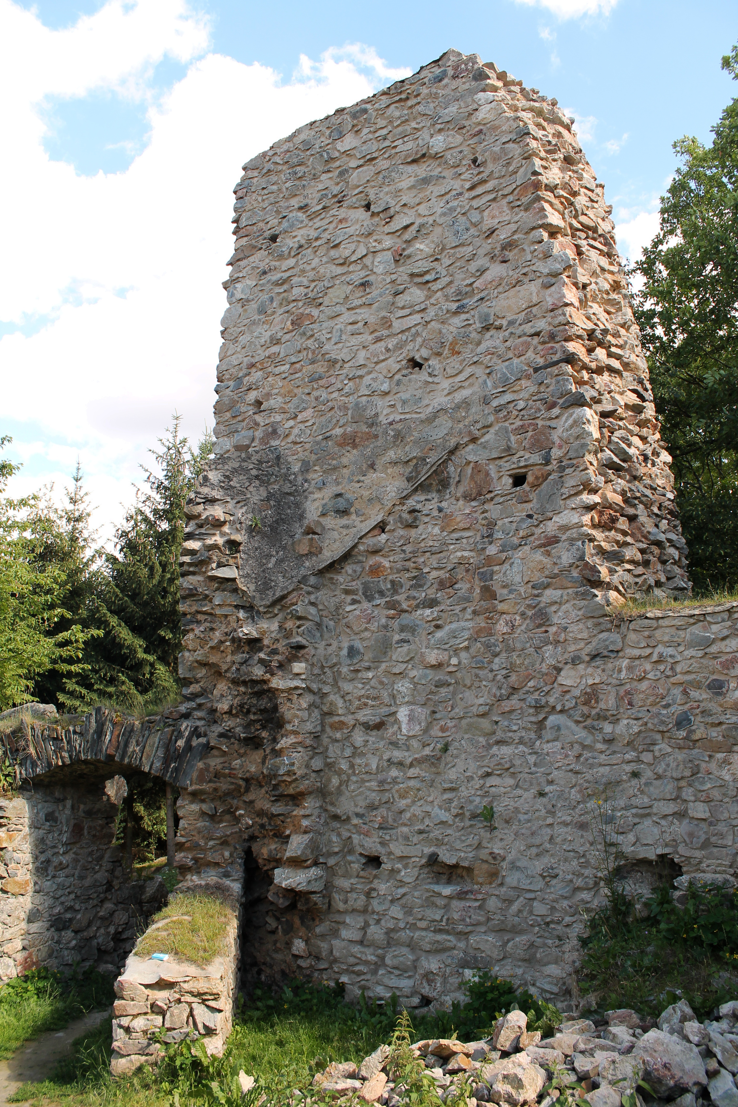 Rabštejn Castle, Rabštejnská Lhota, Chrudim District, Czech Republic